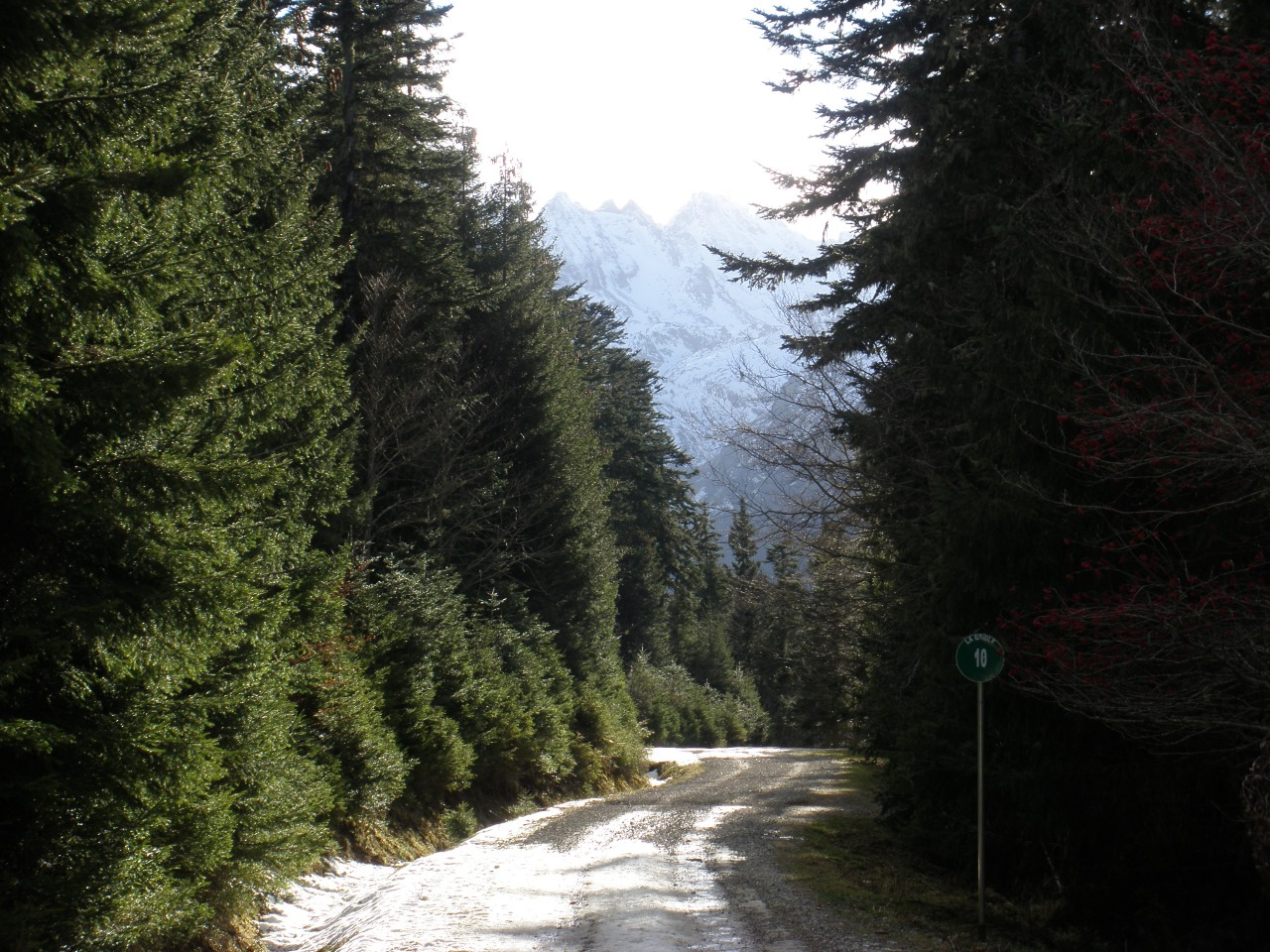 Ax 3 Domaines